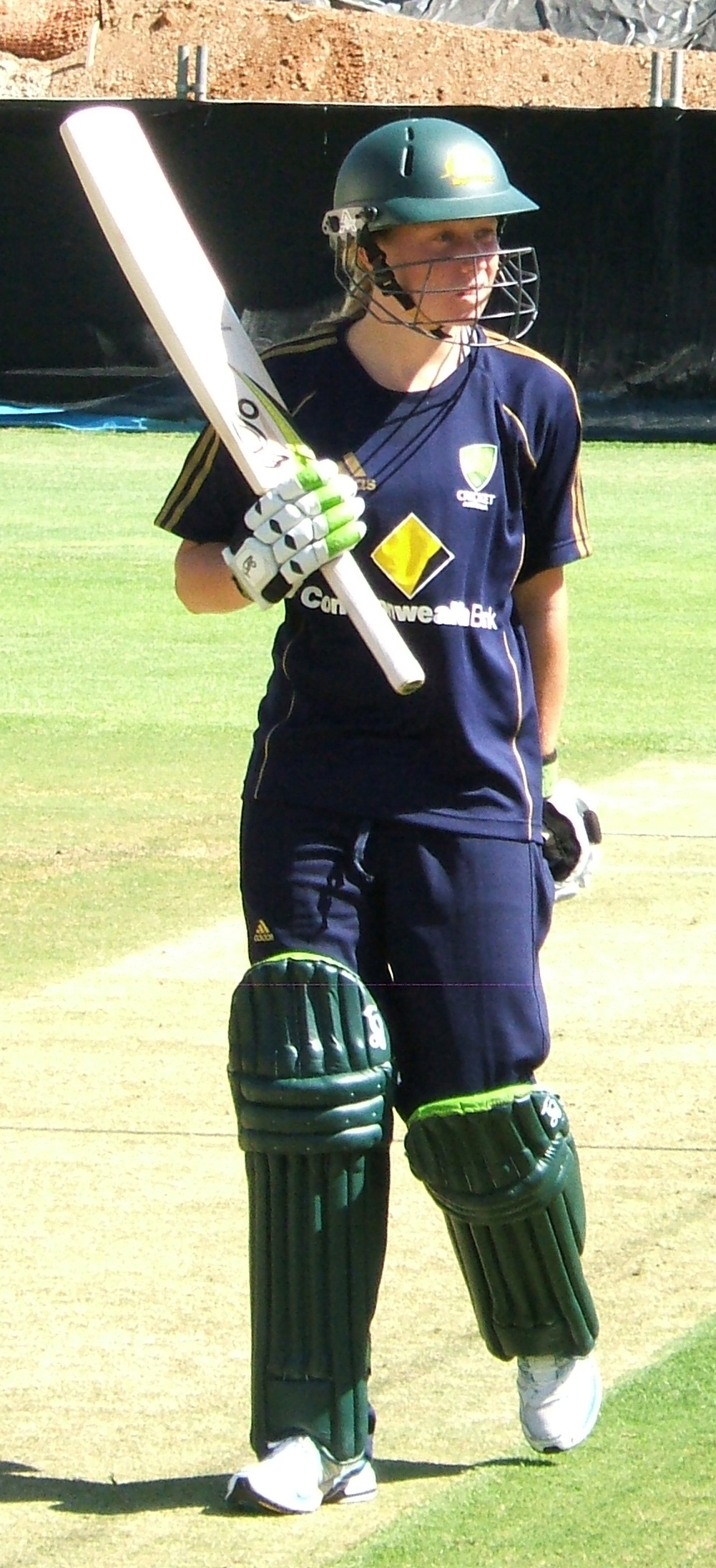 Named person engaging in named action at Adelaide Oval nets/training ground